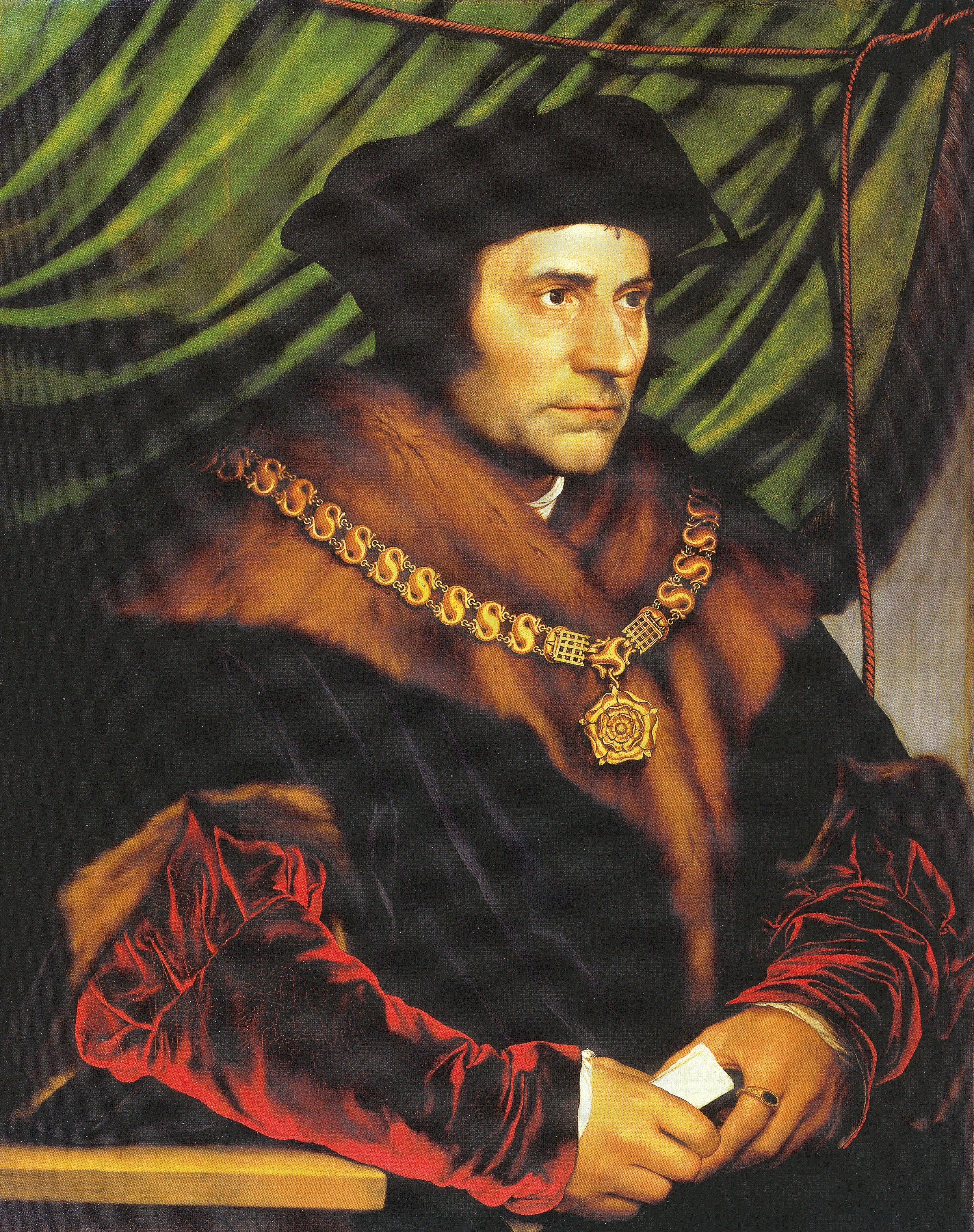 Portrait of Sir Thomas More. Oak, 74.2 × 59 cm. Frick Collection, New York. Holbein arrived in England in late 1526 in search of work, bearing an introduction from the humanist scholar Erasmus, for whom he had worked in Basel, to his friend Thomas More, the English lawyer, scholar, and statesman. Holbein was welcomed as a guest by More, who found him commissions and ordered various works from him, including a portrait of his family (the original is lost but a sketch and copies by other artists survive) and this portrait. According to art historian Stephanie Buck, More's chain, signalling his high rank, indicates that this was an official portrait. His black mantle, trimmed with sable, and red velvet sleeves testify to the sitter's wealth. Buck suggests that Holbein's art advanced in this portrait, in which he uses single colours over large areas and intensifies the physical reality of the fabrics. Ellis Waterhouse describes the uniqueness of the style: "Except for the work of Titian, nothing of the same senatorial dignity of presentation was being produced in European portraiture at this time, but the means—predominantly linear—are the exact opposite to Titian's. The figure bulks largely in a clearly defined space whose cubical volume is deliberately reduced by a curtain; features, hands, and the carriage of the body are all used to convey character with equal effect, and the whole work has a Shakespearian profundity and seems to convey the full image of a European personage".(Stephanie Buck, Hans Holbein, Cologne: Könemann, 1999, pp. 54–56; Ellis Waterhouse, Painting in Britain: 1530 to 1790, London: Penguin, 1969, p. 18.)